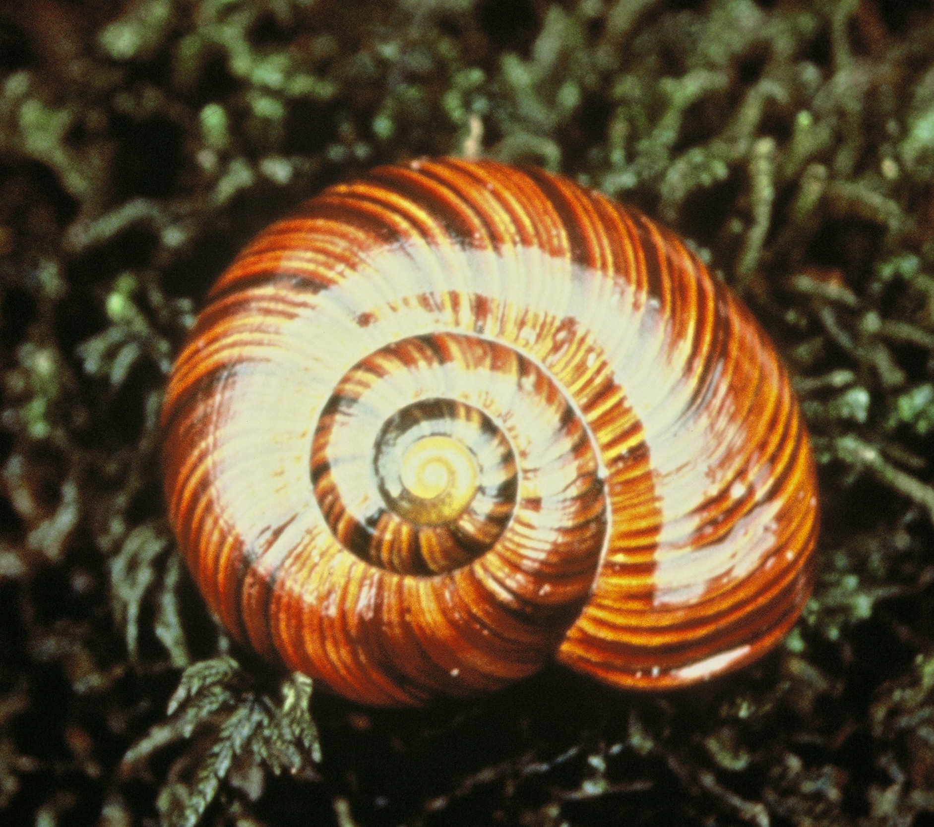 Powelliphanta lignaria lusca shell